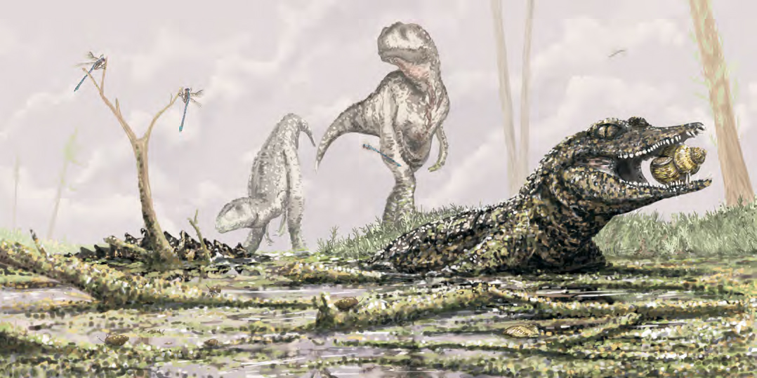 A reconstruction of Koumpiodontosuchus aprosdokiti gen. et sp. nov. feeding on the viviparid gastropod Viviparus carinifer. Smaller gastropods shown include Prophysa sp.